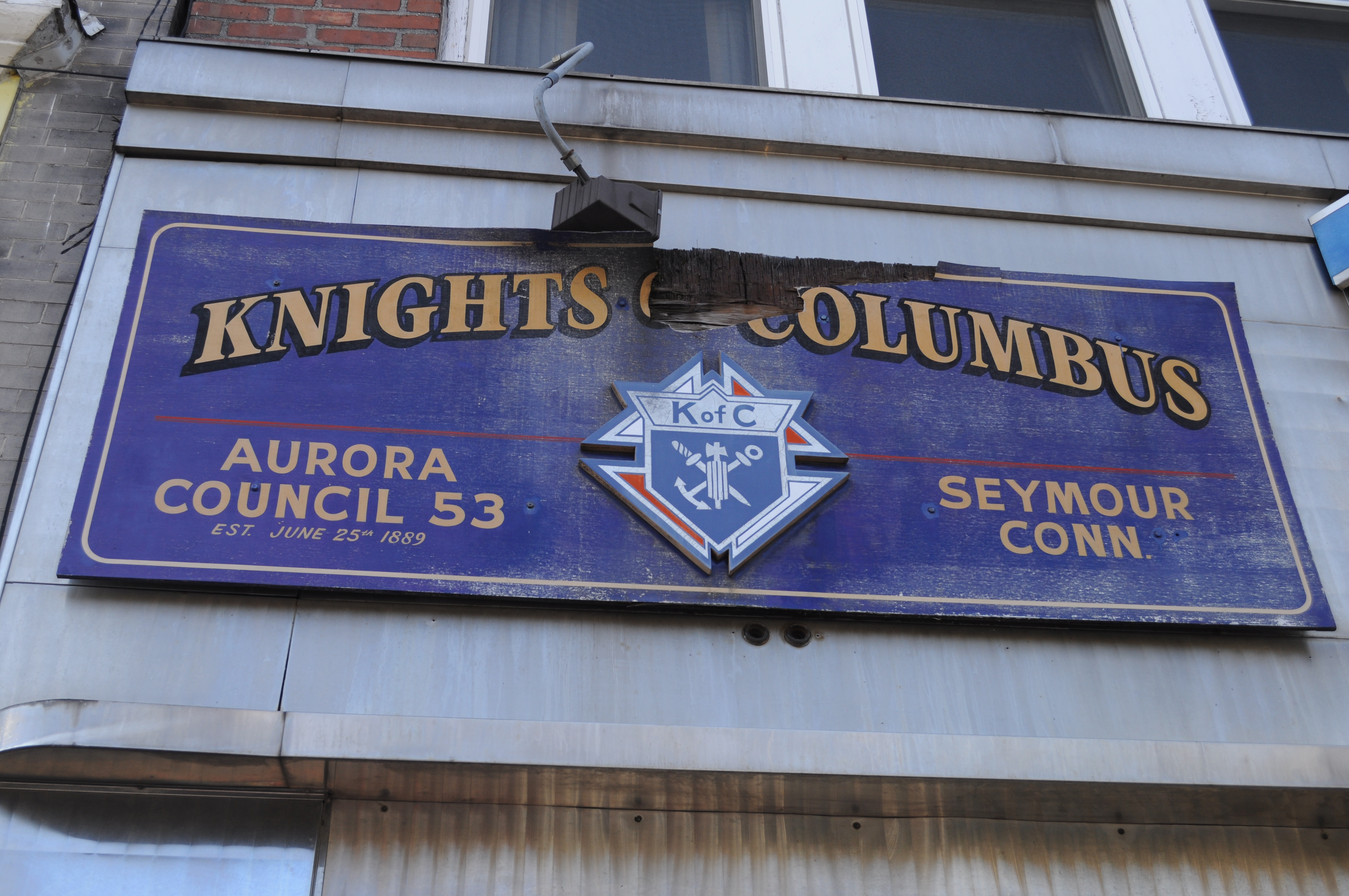 Knights of Columbus sign, Strand Theater, Seymour, Connecticut. Part of the Downtown Seymour Historic District, which is listed on the National Register of Historic Places.